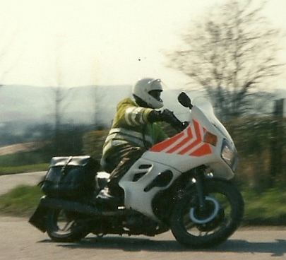 Moto Guzzi V 50 NATO with JS 980 S Fairing